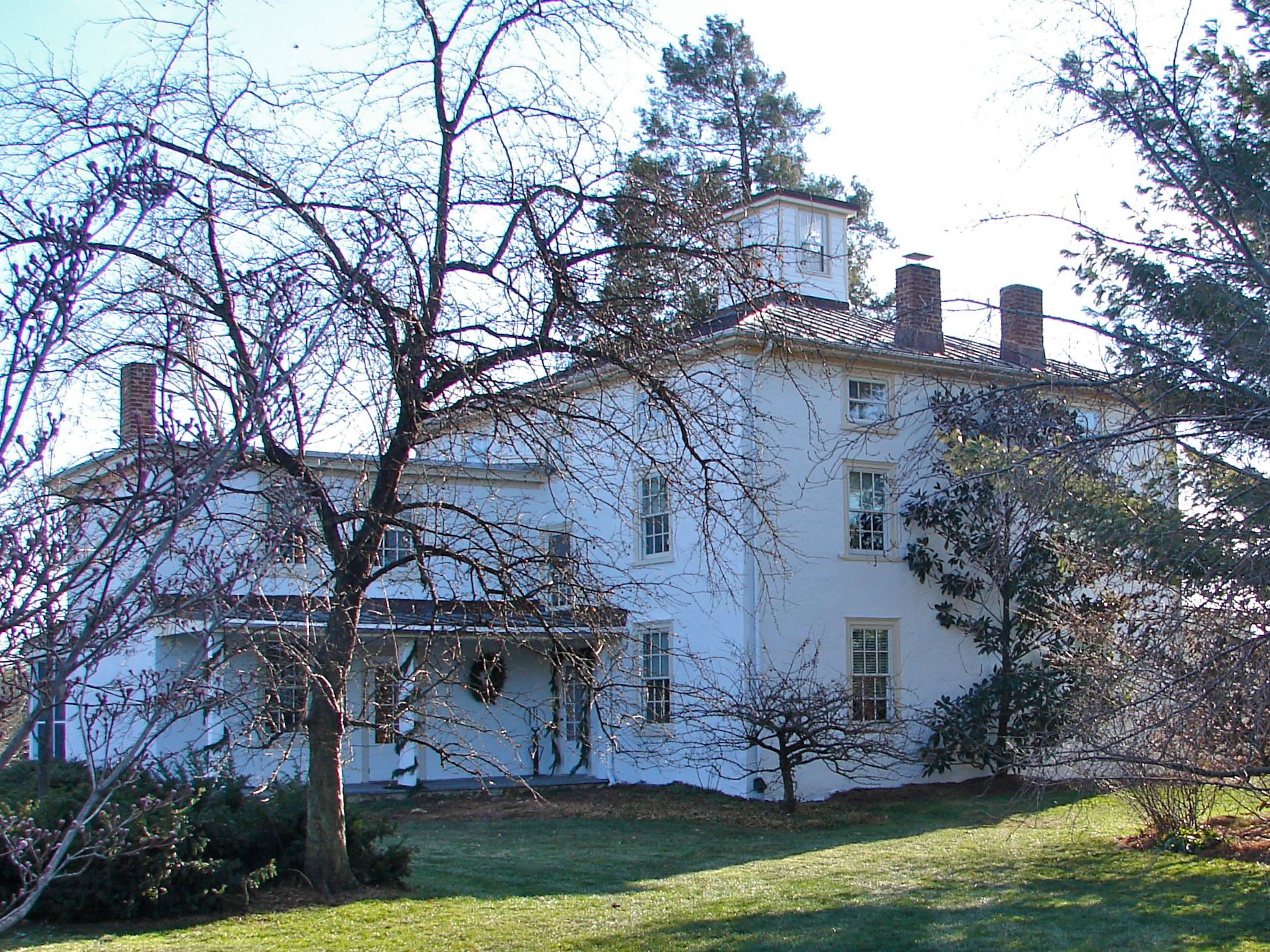 David Eastburn Farm on the NRHP since November 13, 1986. At 2 Bristol Lane, on the corner with Corner Ketch Rd. north of Newark, Delaware. Surrounded by a housing subdivision now, not much remains of the farm except the house, the ruins of a barn (4 Bristol Ln.), and an old tenant house (8 Somerset Ln.).